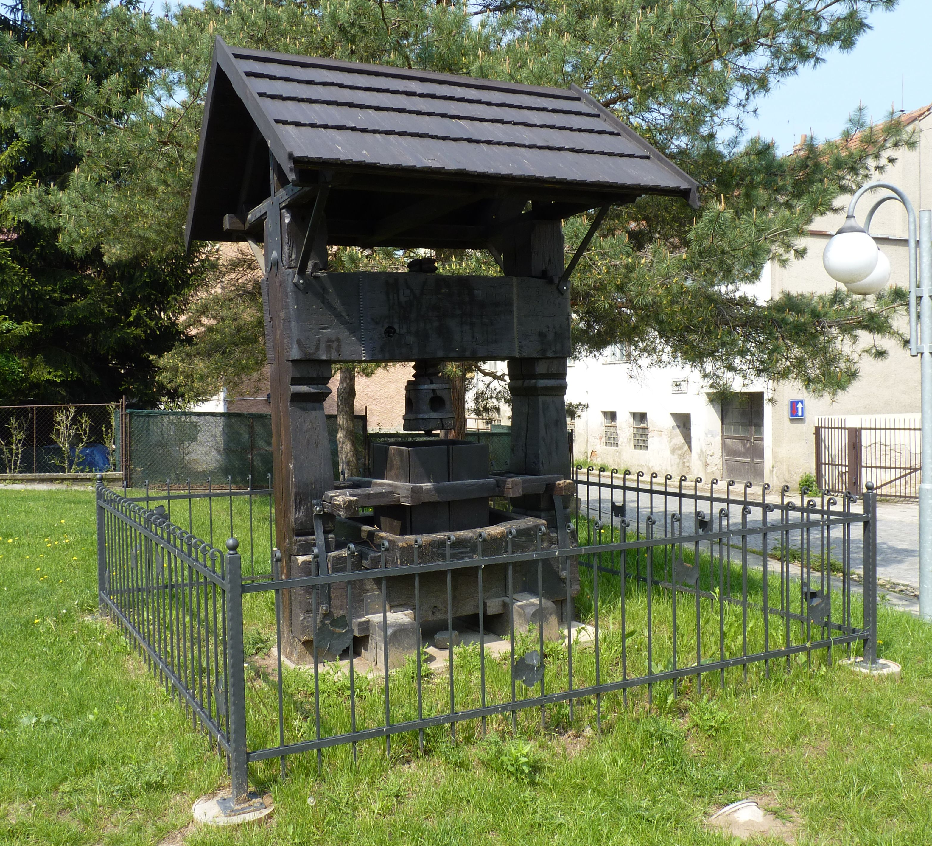 Wine press. Dolní Kounice, Brno-Country District, South Moravian Region, Czech Republic